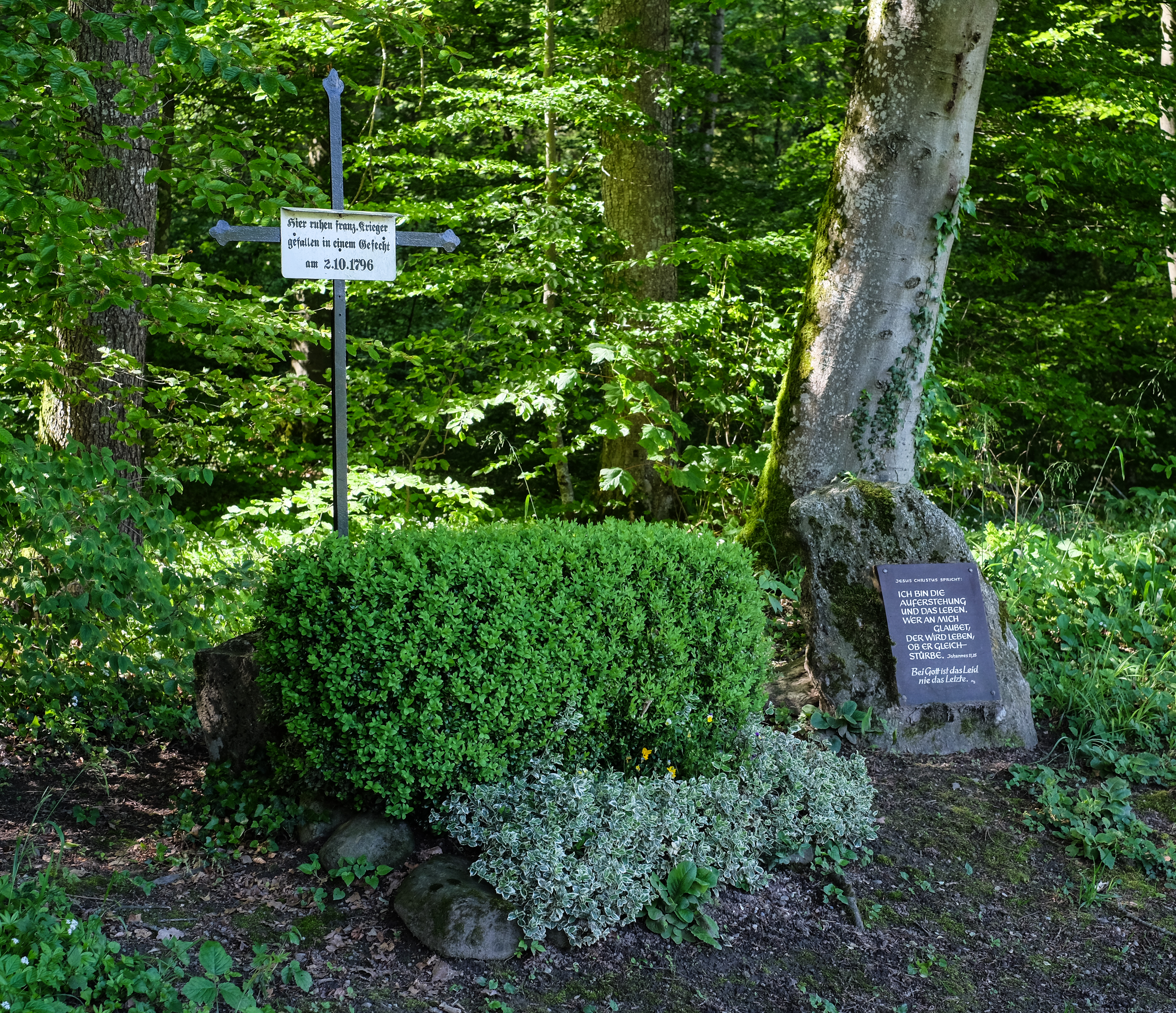 Memorial cross Franzosengrab, dedicated to the french soldiers who died in the Battle of Biberach, 2 October 1796, and are buried here. Totenbühl, Bad Schussenried, district Biberach, Baden-Württemberg, Germany